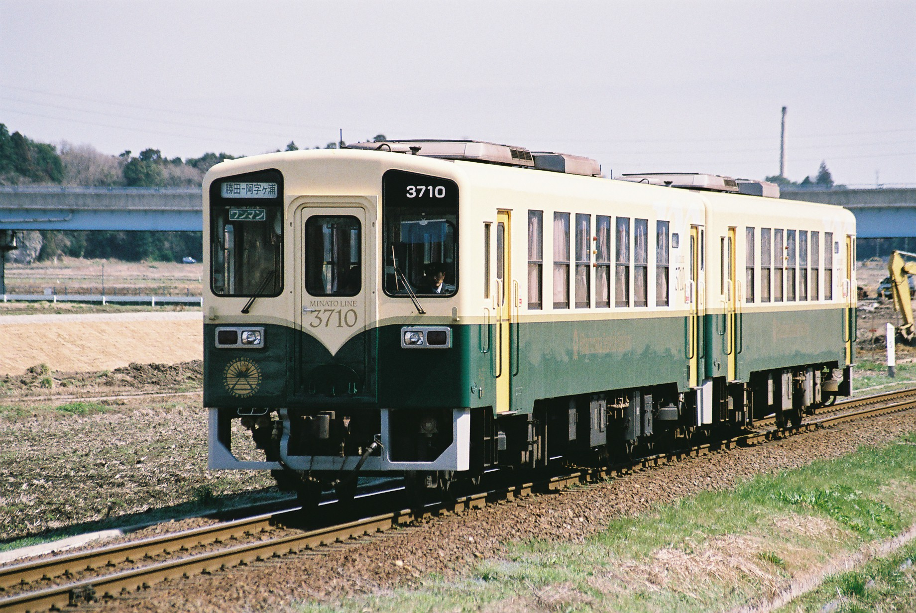 Hitachinaka Seaside Railway (former Ibaraki Kōtsū) Kiha 3710 DMU in new livery near Nakane Station